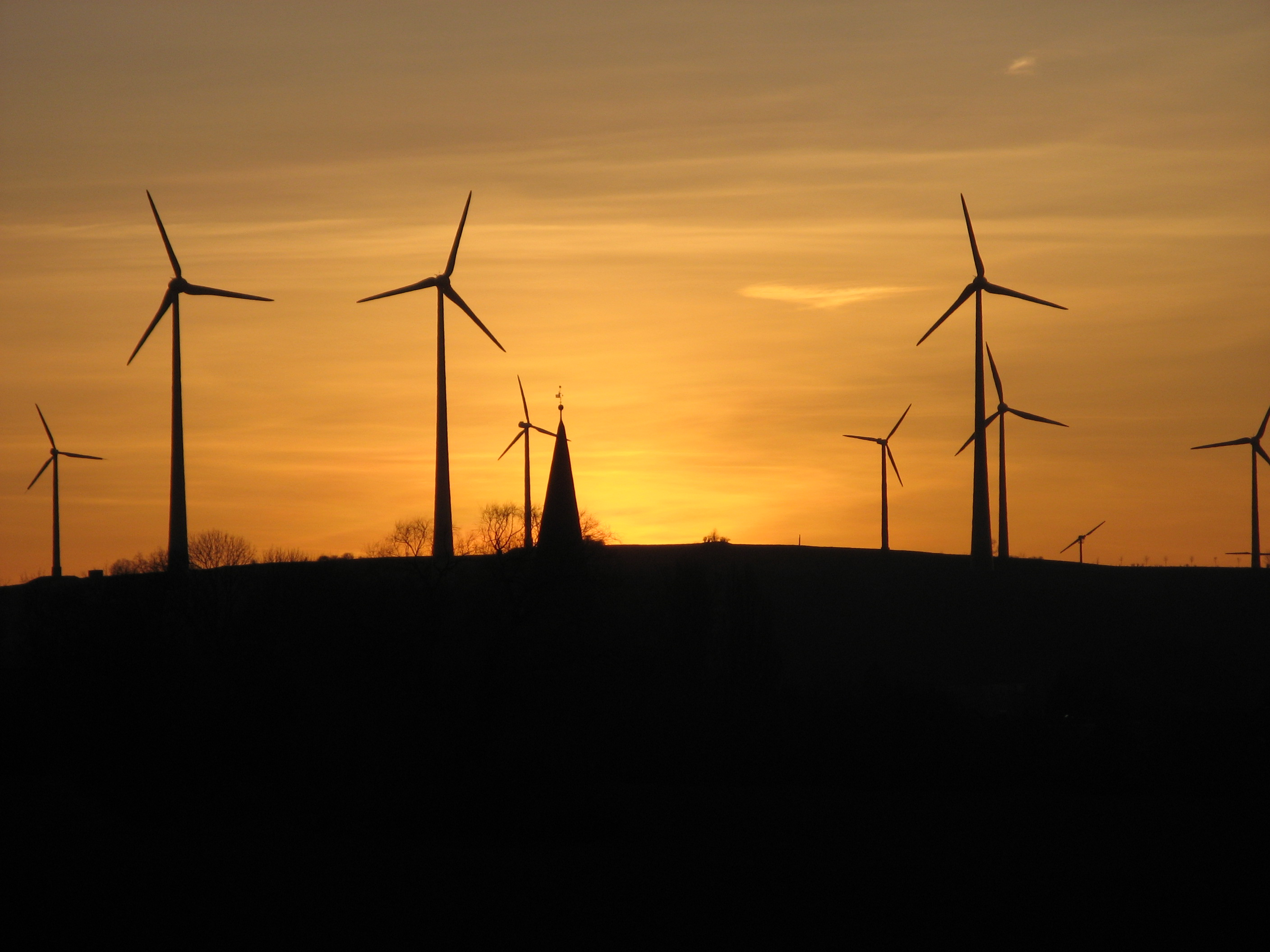 Wind farm Druiberg near Dardesheim, Saxony-Anhalt, Germany